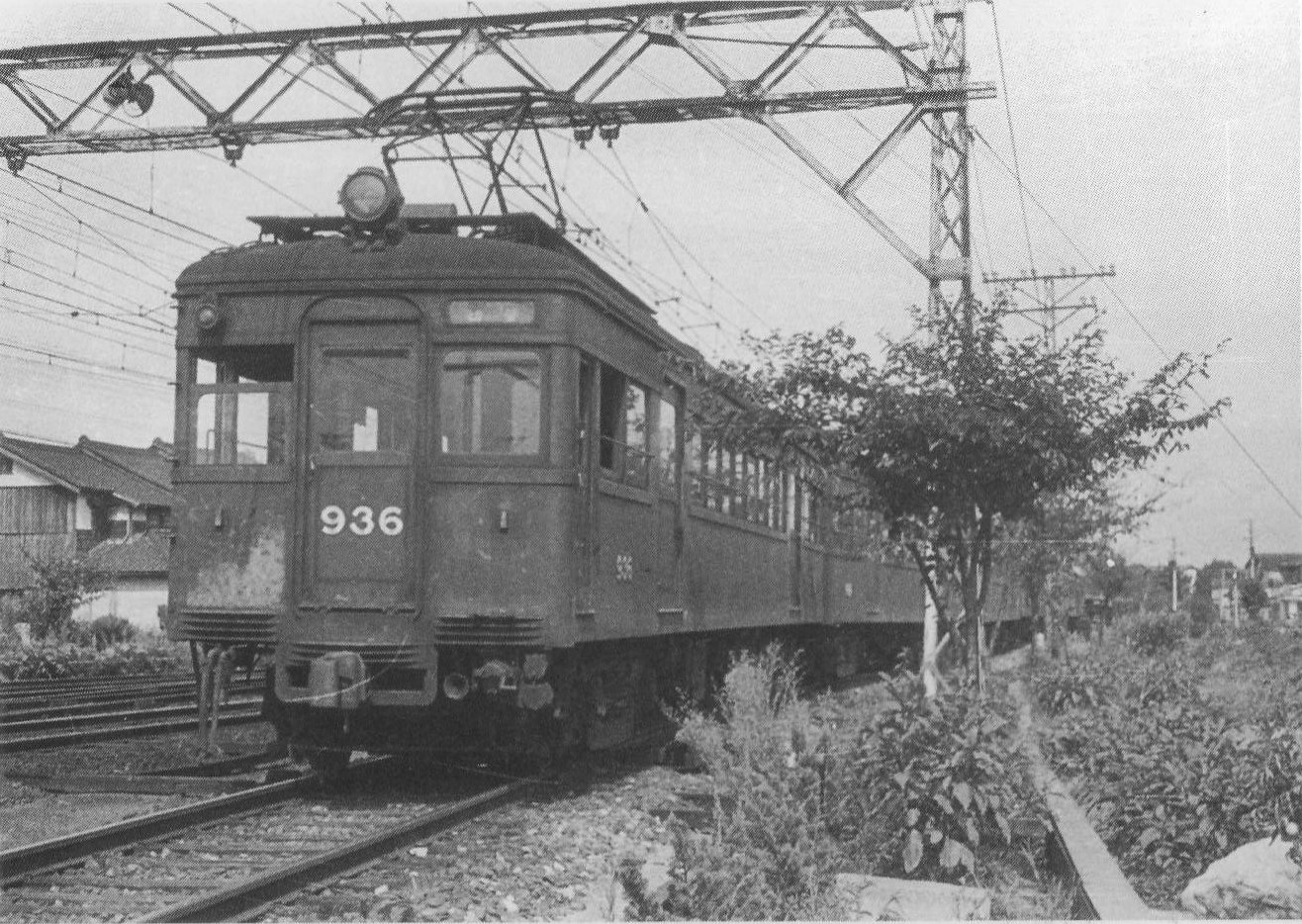 Hankyu 936. Built in 1939